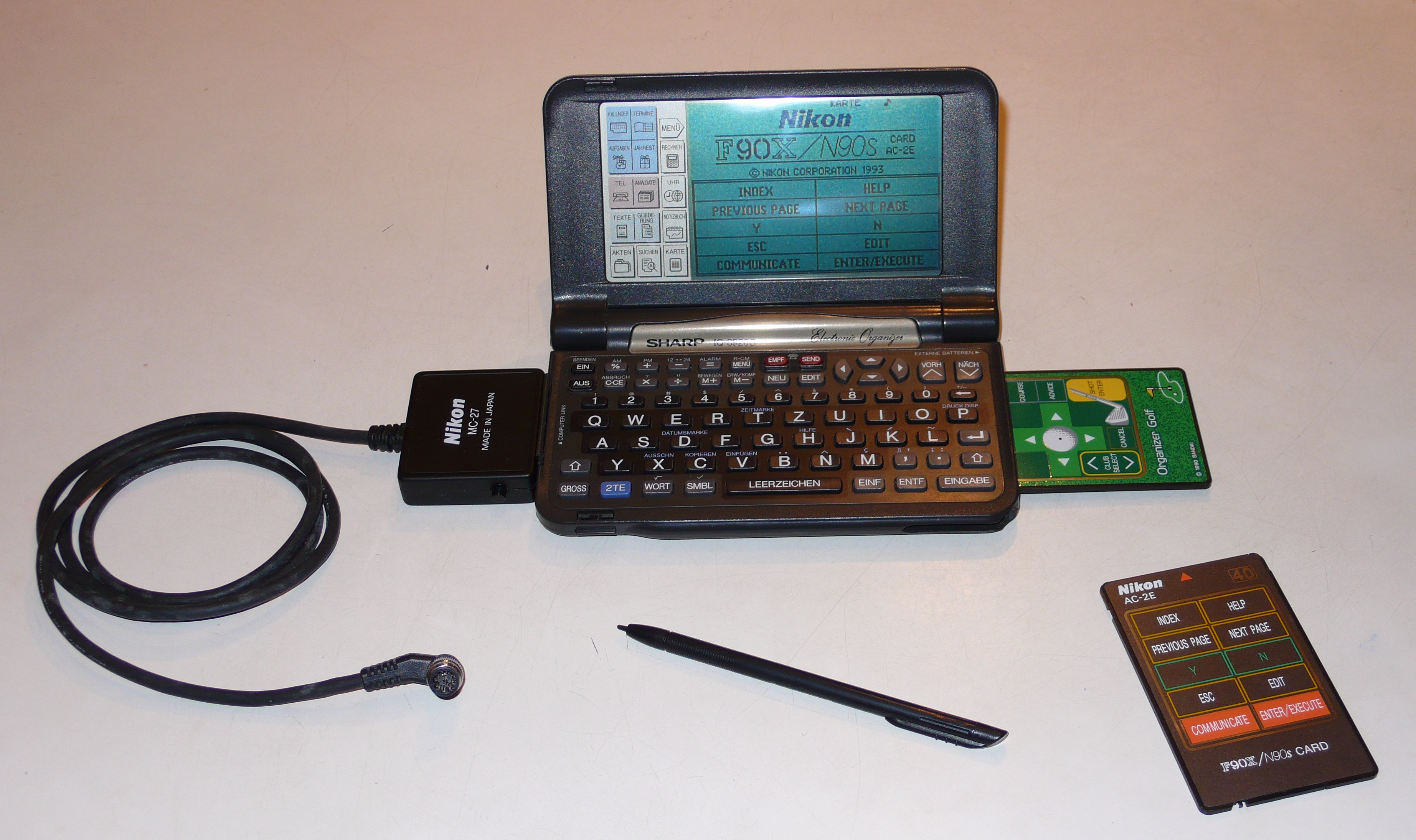 NIKON AC-2E Remote Control System for F90X/N90s 1993 (SHARP De: IQ-8920g En: OZ-9520)